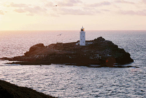 author: Dave Taskis. source: own work, mine. camera: Canon EOS620. date: 9 April 2007. Dyvroeth 20:04, 30 April 2007 (UTC)